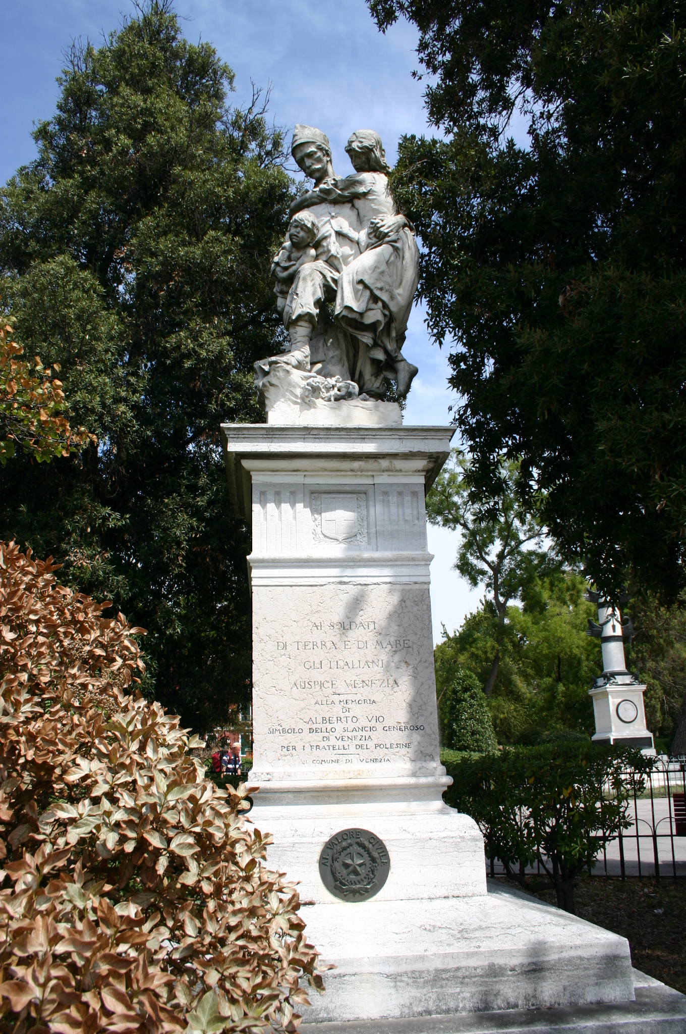 Venice, Giardini della Biennale gardens: Monument to sea and land soldiers, sculpted by Augusto Benvenuti (1838-1899) in 1885, to commemorate the help given by the army during the catastrofic 1882 flood. Picture by Giovanni Dall'Orto, August 10, 2007.